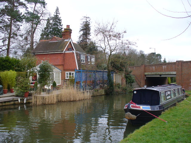 Cartbridge, Send Modern functional brick bridge crossing the River Wey Navigation. Opposite is a tile-hung cottage with its own waterside frontage. The narrowboat has Broxbourne (Hertfordshire) painted on its side.